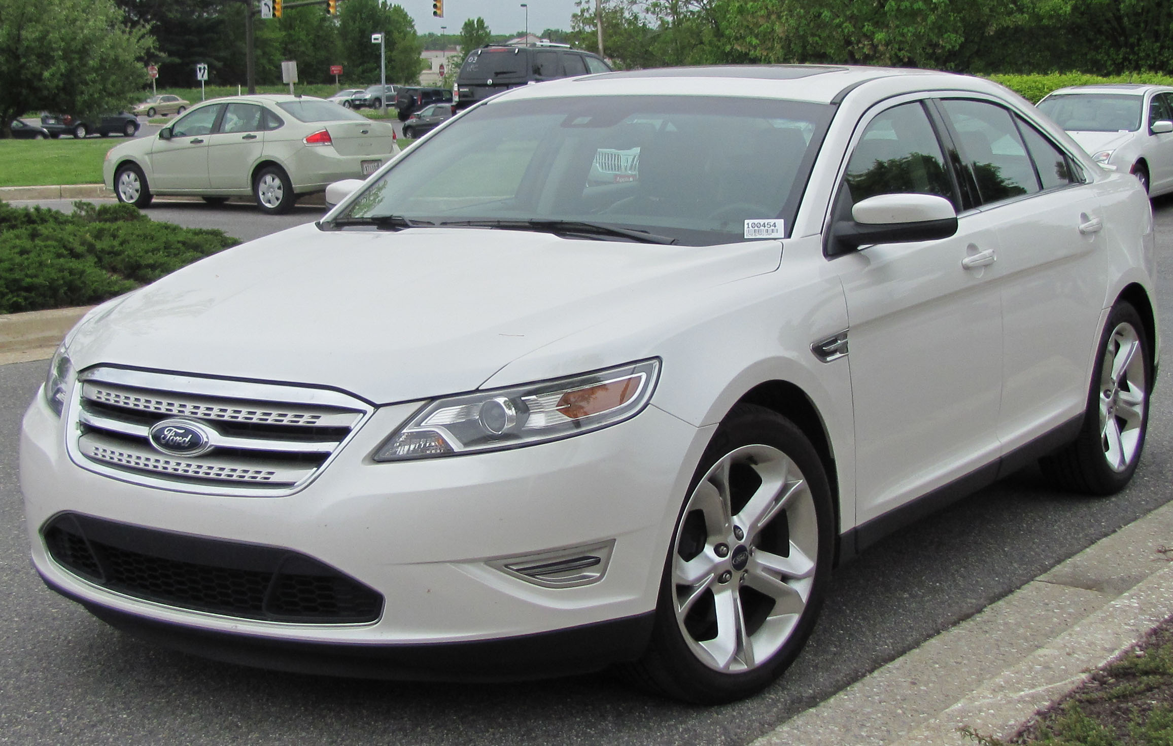 2010 Ford Taurus SHO photographed in Columbia, Maryland, USA.